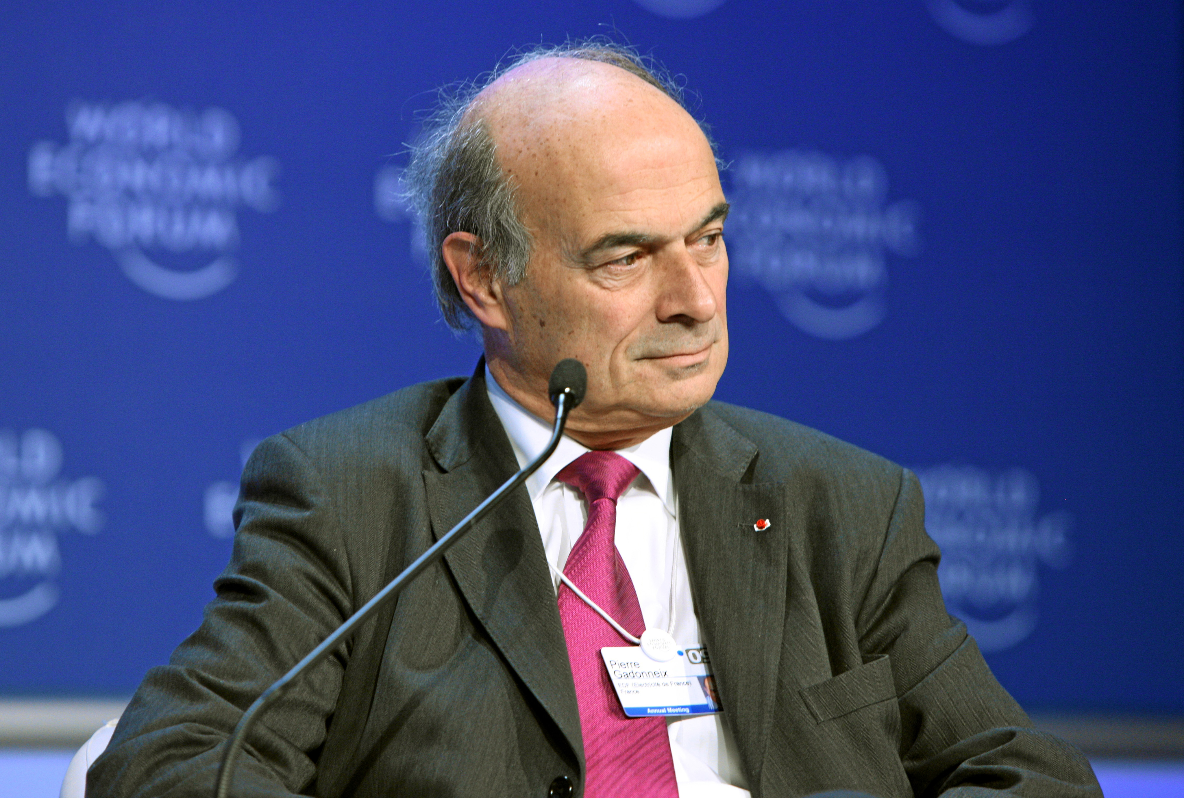 DAVOS-KLOSTERS/SWITZERLAND, 29JAN09 - Pierre Gadonneix, Chairman and Chief Executive Officer, EDF (Electricité de France), France, is captured during the session 'Energy Outlook 2009' at the Annual Meeting 2009 of the World Economic Forum in Davos, Switzerland, January 29, 2009. Copyright by World Economic Forum by Christof Sonderegger